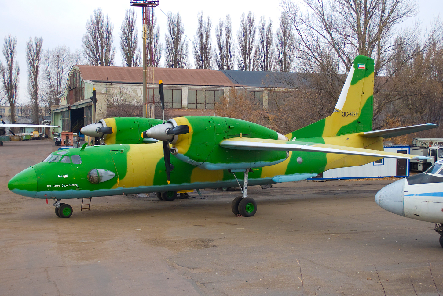 Antonov An-32 Equatorial Guinea Air Force at Kiev Zhulyany